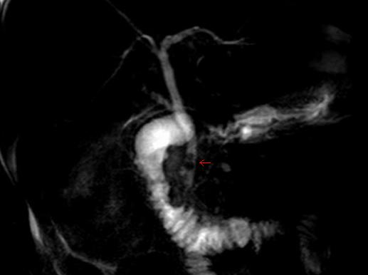 MRCP image of patient with two stones in distal common bile duct